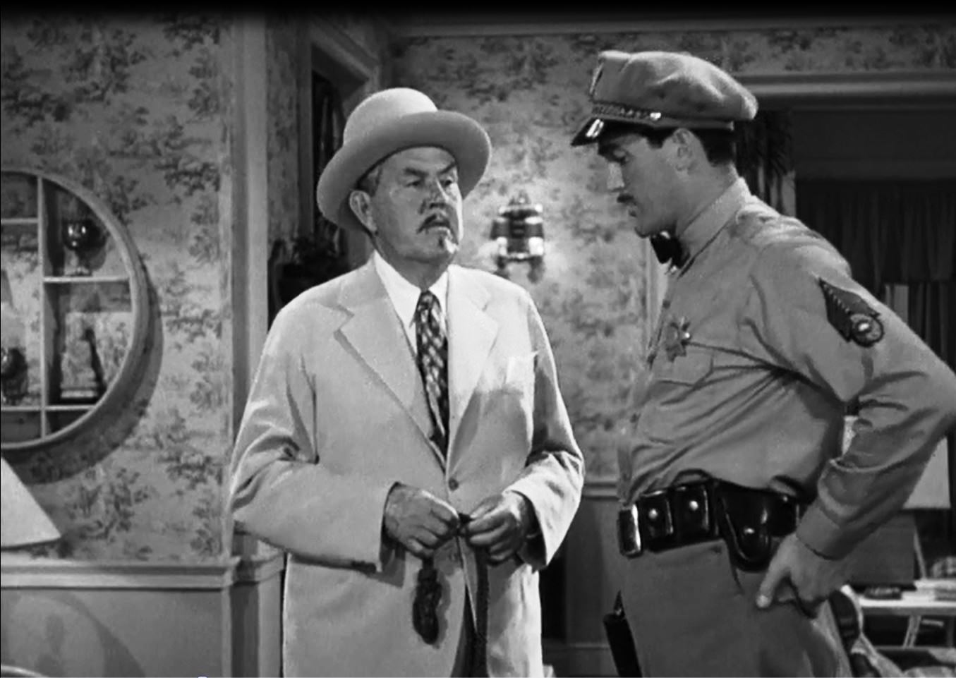 Low resolution screenshot of Charlie Chan (Sidney Toler) and Sgt. Reynolds (Kirk Alyn) from the 1946 American film The Trap (1946). This was the last film of Sidney Toler who died a few months after its release. The film is in the public domain due to the omission of a valid copyright notice on its original prints.